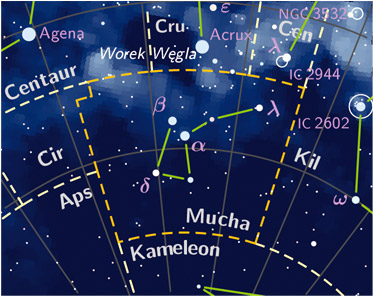 This star constellation map was created using PP3 software by Torsten Bronger. Polish translations and other modifications have been made for the purposes of Polish Wikipedia by Przemysław 'BlueShade' Idzkiewicz. This image is licensed under GFDL license version 1.2 or later.